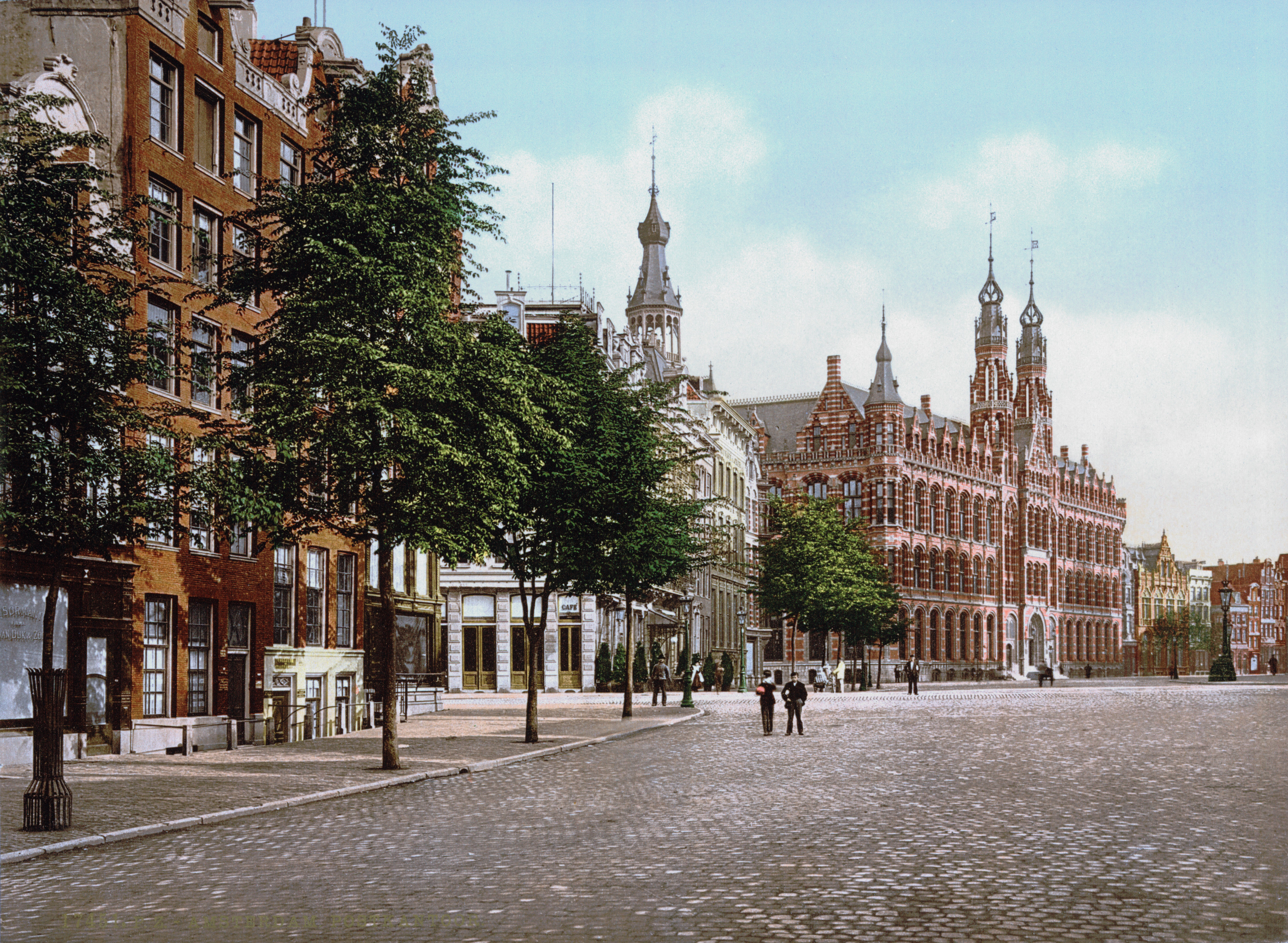 Amsterdam Postoffice